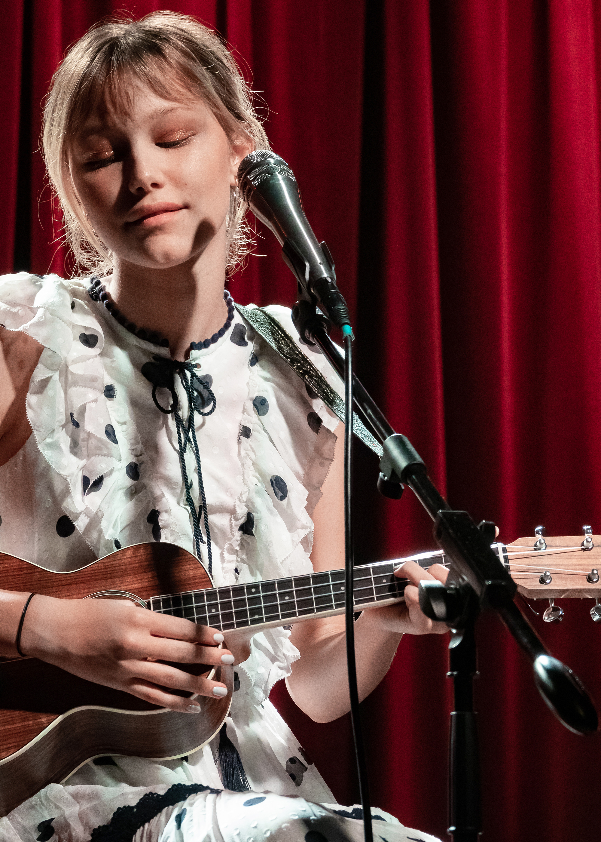 Grace VanderWaal performing live at the Grammy Museum in Los Angeles, California, on Sunday, July 22, 2018.